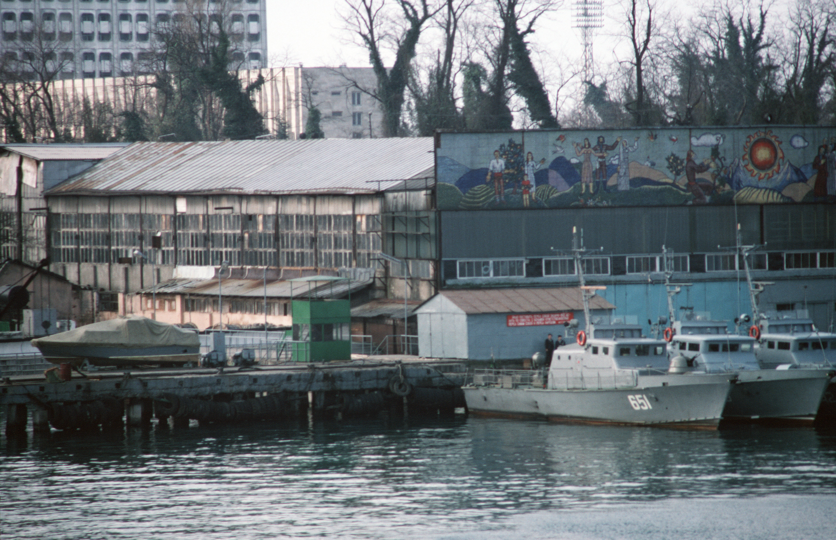 General notes: Item from Record Group 330: Records of the Office of the Secretary of Defense, 1921 - 2008